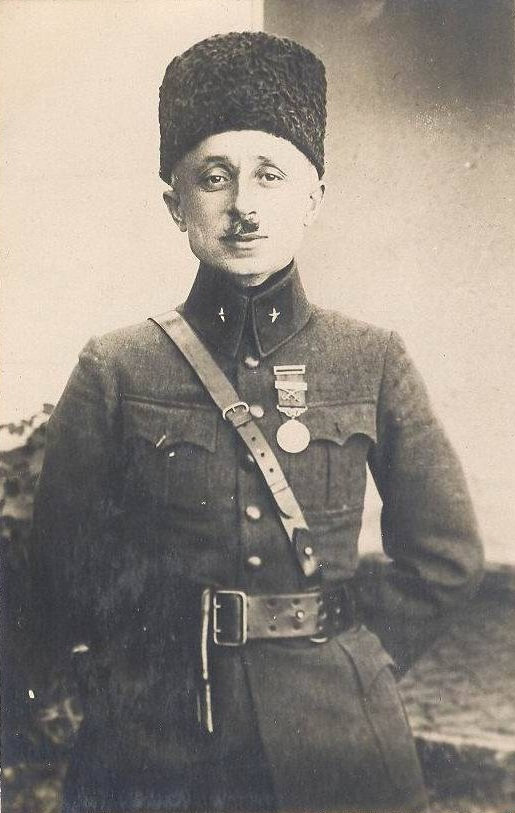 Refet (Bele) during the War of Independence.